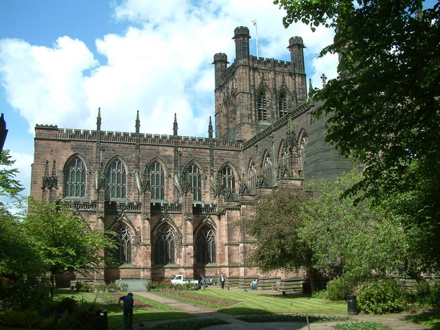 Photograph